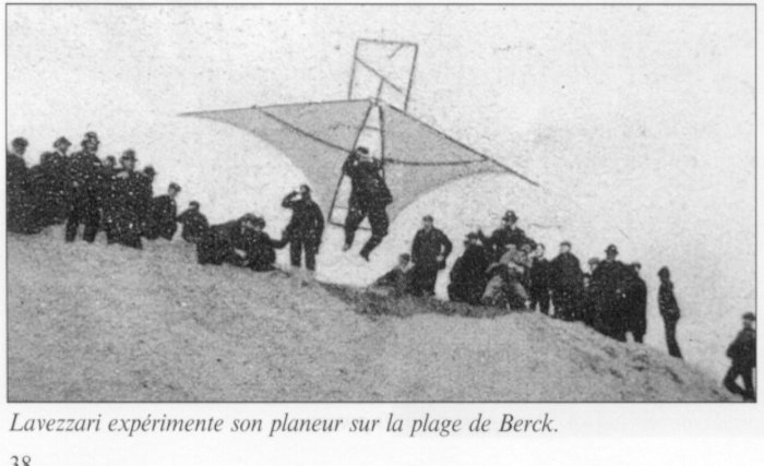 Lavezzari tests his split-keel triple-sectioned flexible-wing-sailed hang glider at Berck Beach, France, 1904.